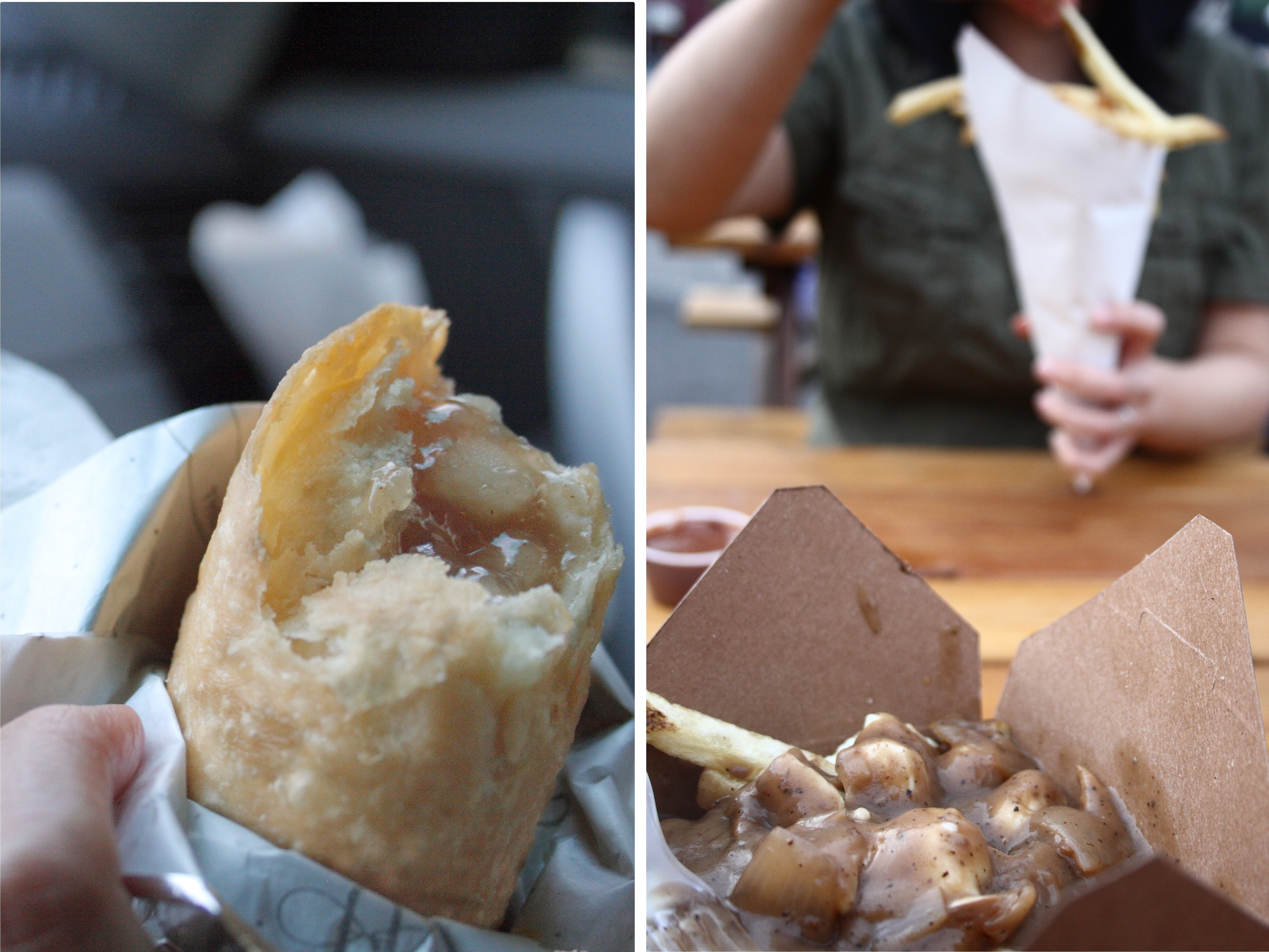 Two examples of Portland, Oregon street food. On the left is Whiffies' fried apple pie. On the right is poutine and Belgian fries from Potato Champion.